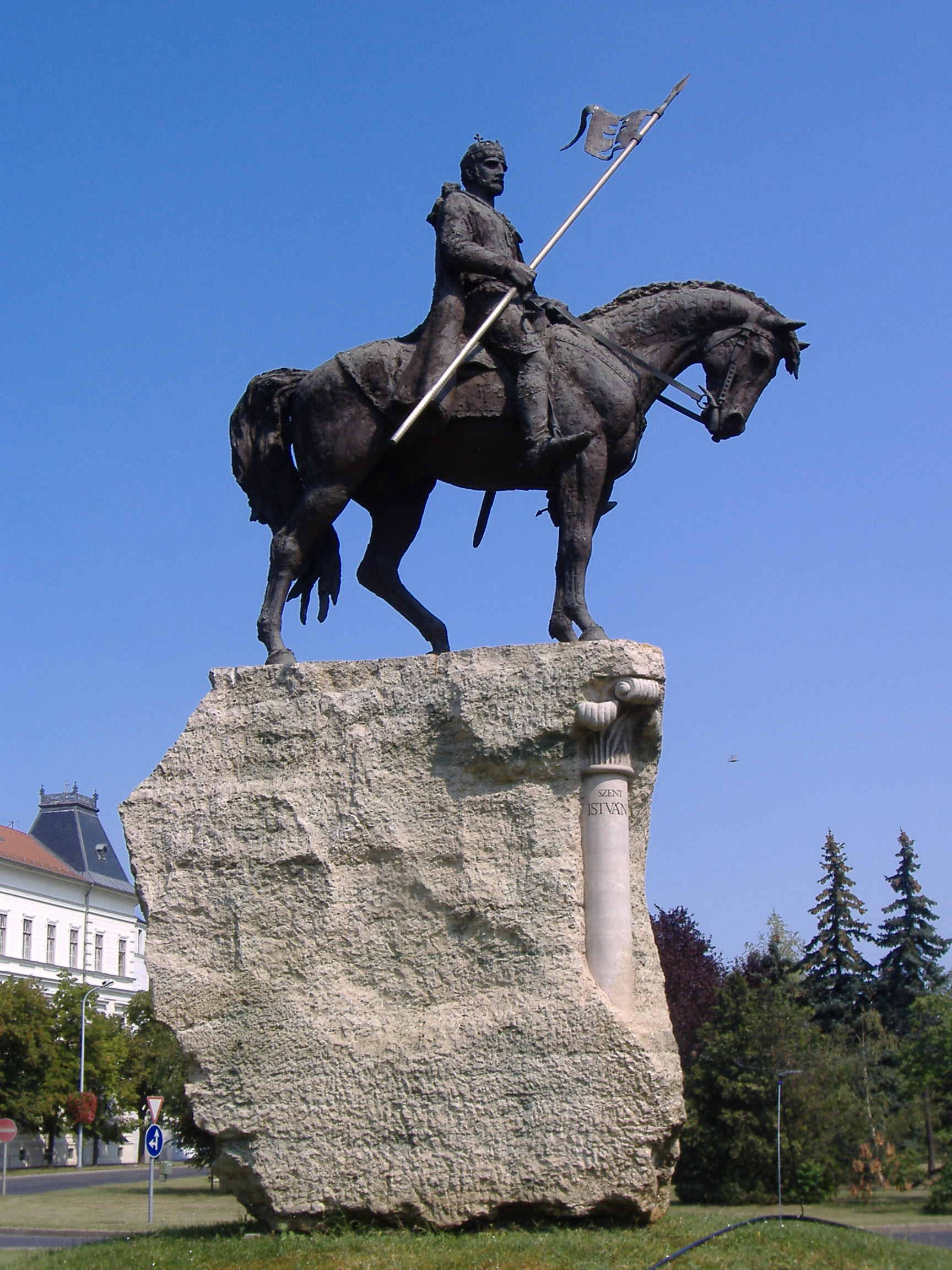 Mounted Bronze statue of Saint Stephen, founder of the Hungarian state in Makó, Hungary. Sculptor: Lajos Győrfi and Jenő Ferenc Kiss, 2000 works